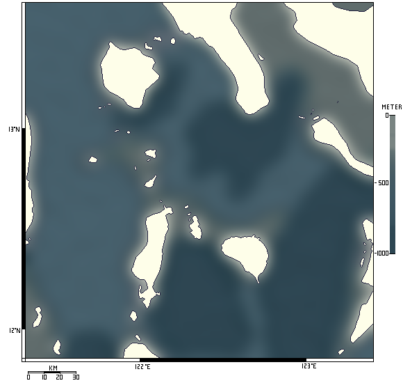 Location map of the Sibuyan Sea with neighbouring islands and provisional depthmarkings.